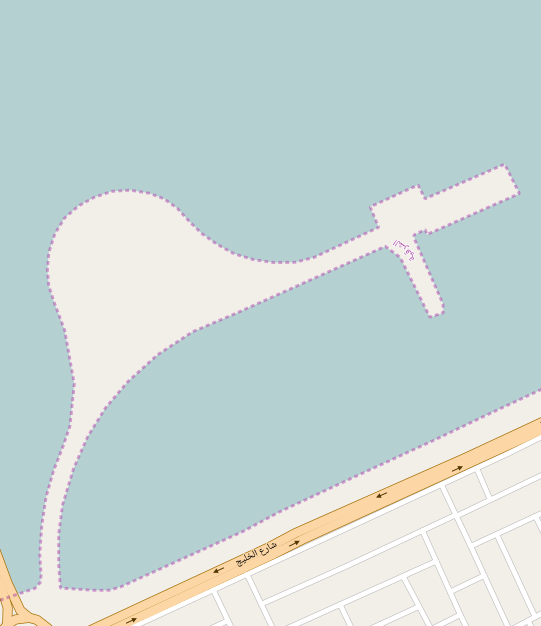 Map of Jazirat souq samaq Island, Qatif